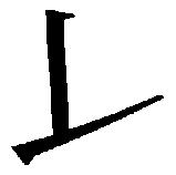 Katakana syllable Yi of the Ya column